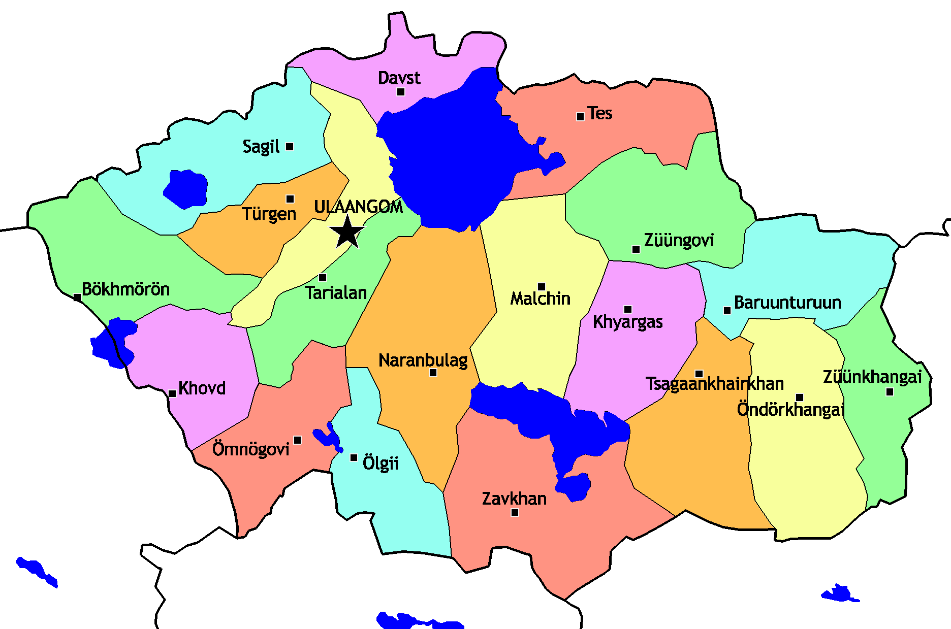 Map of the Uvs aimag with the sums